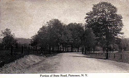 Route 22 in Patterson in the early 20th century postcard